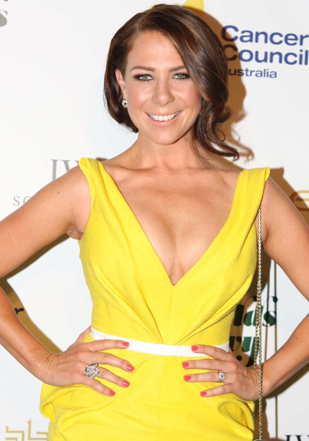 RONAN KEATING'S EMERALDS AND IVY BALL On Friday November 16, Ronan Keating and Cancer Council Australia will stage the Inaugural Emeralds and Ivy in Sydney at The Ivy Ballroom in Sydney. The glamorous black tie gala event will be hosted by Ronan Keating and The Morning Show's Kylie Gillies, and features a guest list that boasts a host of actors and entertainers, as well as fans and supporters of Cancer Council Australia. Guests will enjoy a spectacular three-course dinner in the stunning and intimate Ivy Ballroom and will be entertained by X Factor finalists, Vogue Williams and Ronan Keating. Funds raised through ticket sales and auction items on the night will go to the Cancer Council's Ronan Keating Fellowship.